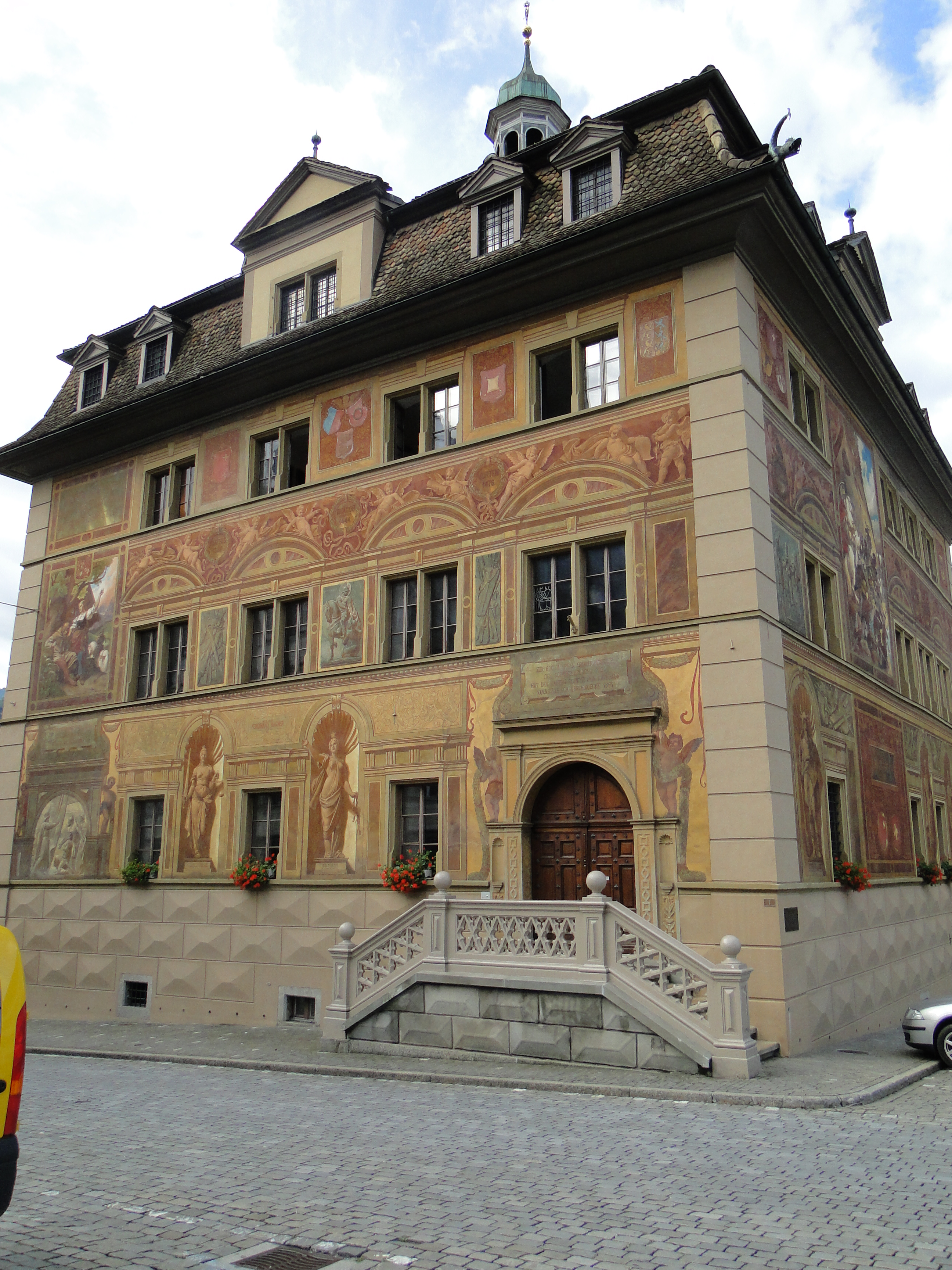 Old "Rathaus" in Schwyz